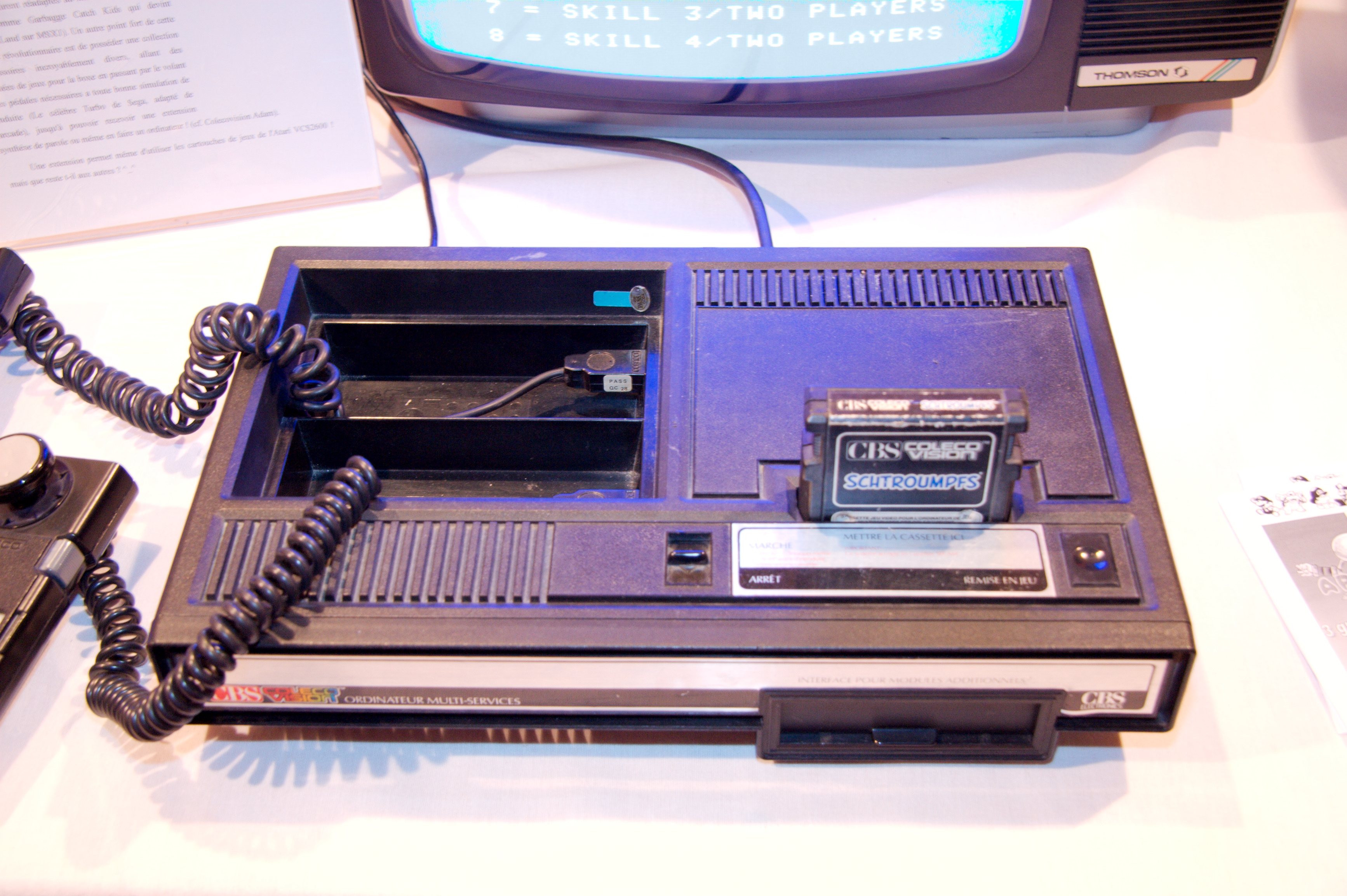 ColecoVision with a Schtroumpf cartridge. Festival du jeu vidéo 2008 (video game festival) (Paris, France).